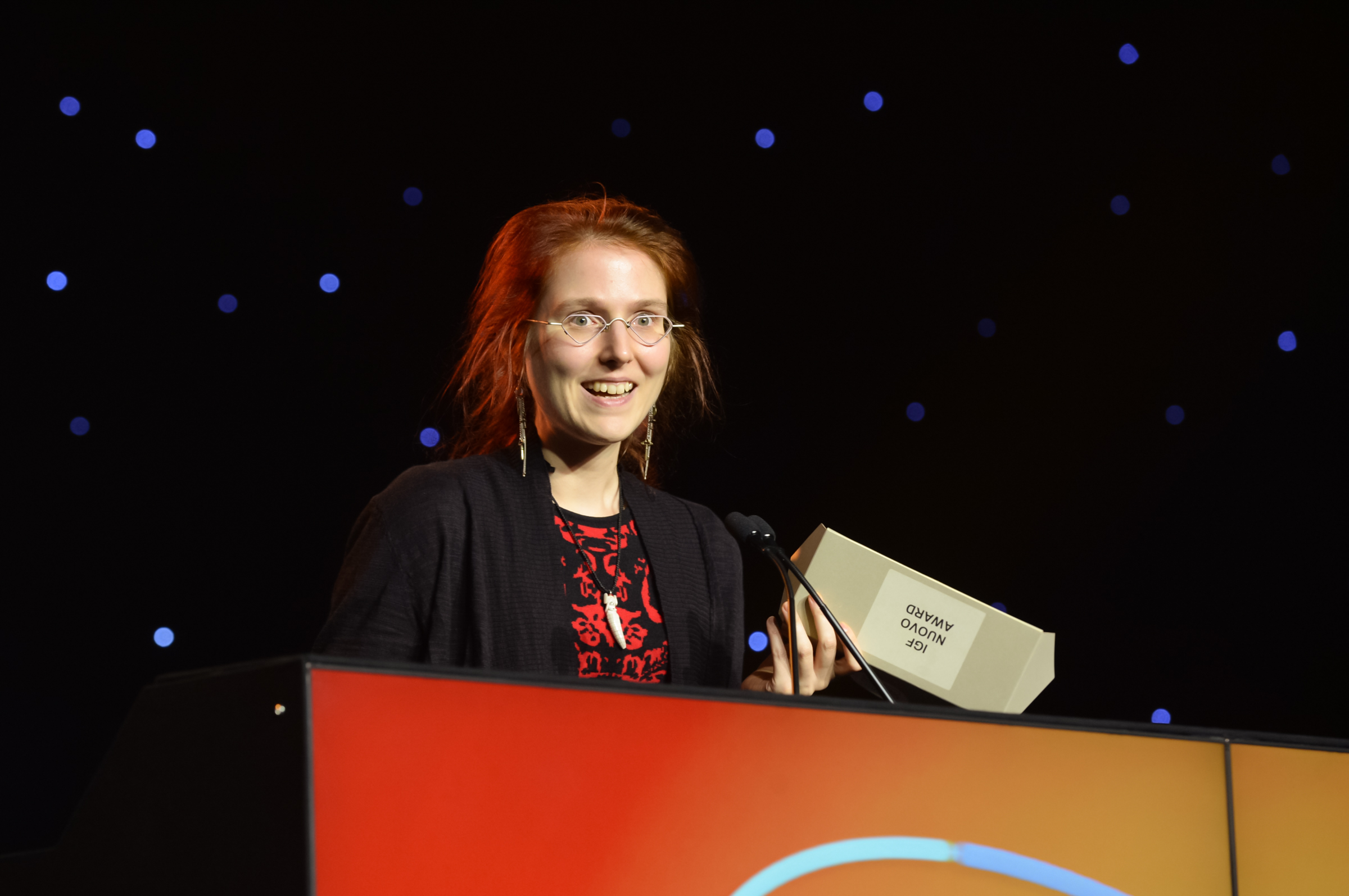 Nathalie Lawhead receiving the Nuovo Award for Tetrageddon Games during the Independent Games Festival 2015